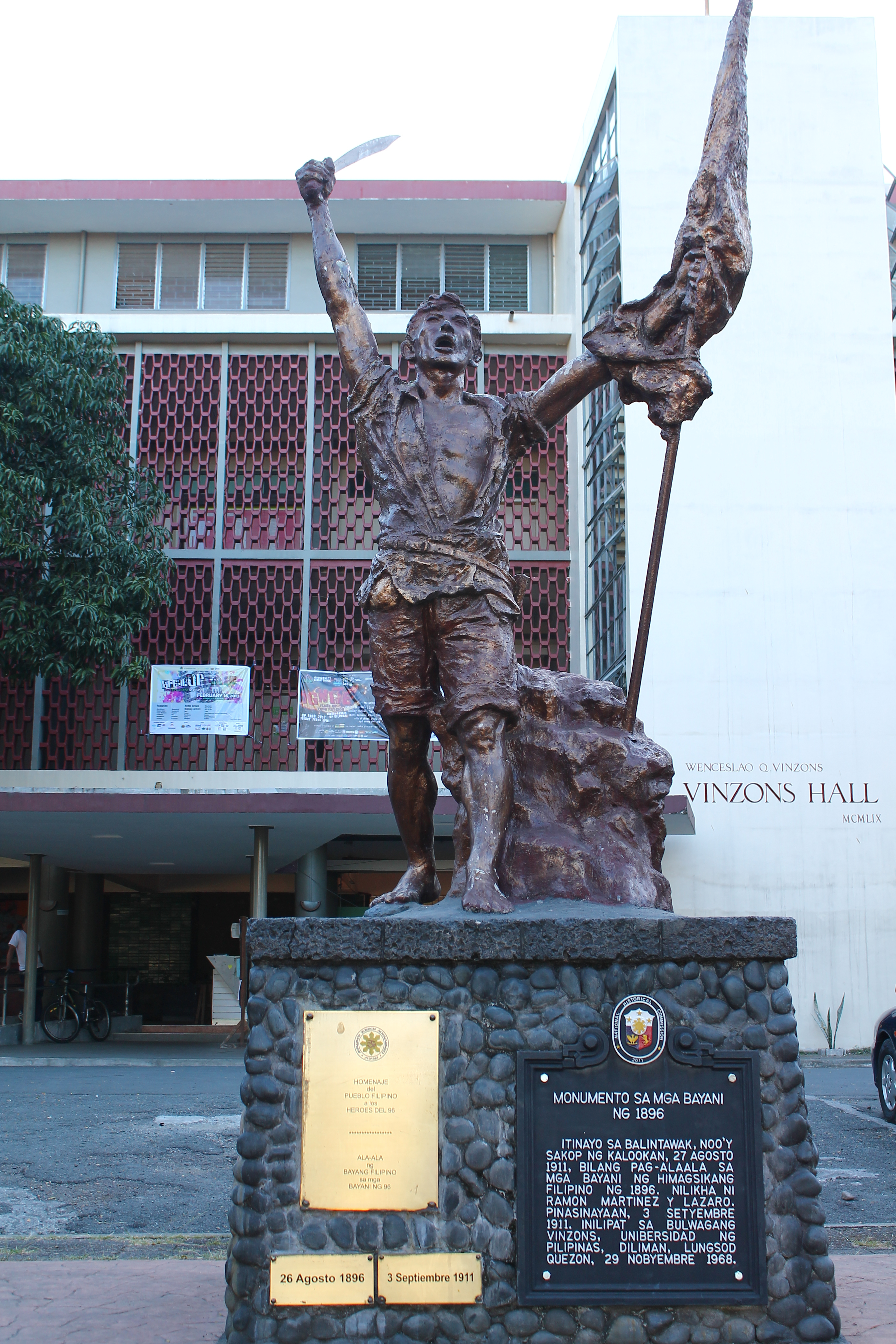 Monument to the Father of the 1896 Revolution